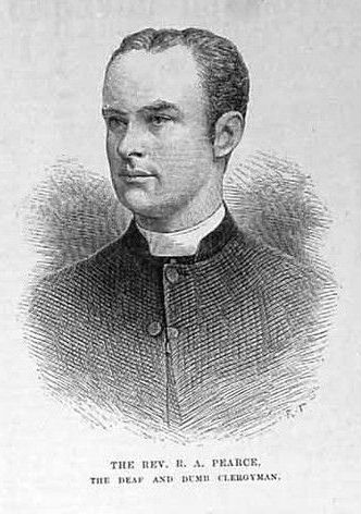 Reverend Richard Aslatt Pearce, the first ordained deaf and non-speaking Anglican priest. Lithograph from photo by Hills and Saunders of Oxford.